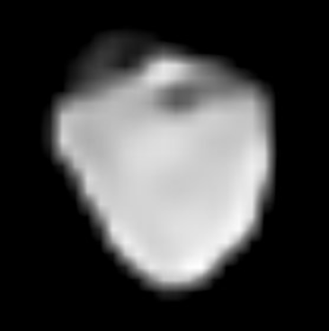 This image, taken by the SPHERE instrument on the VLT Telescope, shows the asteroid 6 Hebe.